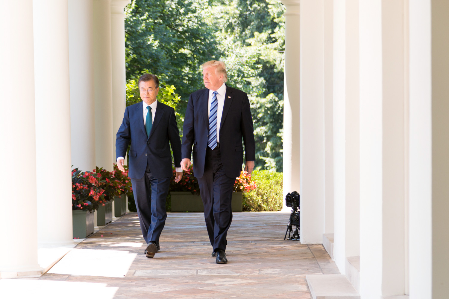 President Donald J. Trump and President Moon Jae-in of the Republic of Korea participate in joint statements on Friday, June 30, 2017, in the Rose Garden of the White House in Washington, D.C. (Official White House Photo by Shealah Craighead)